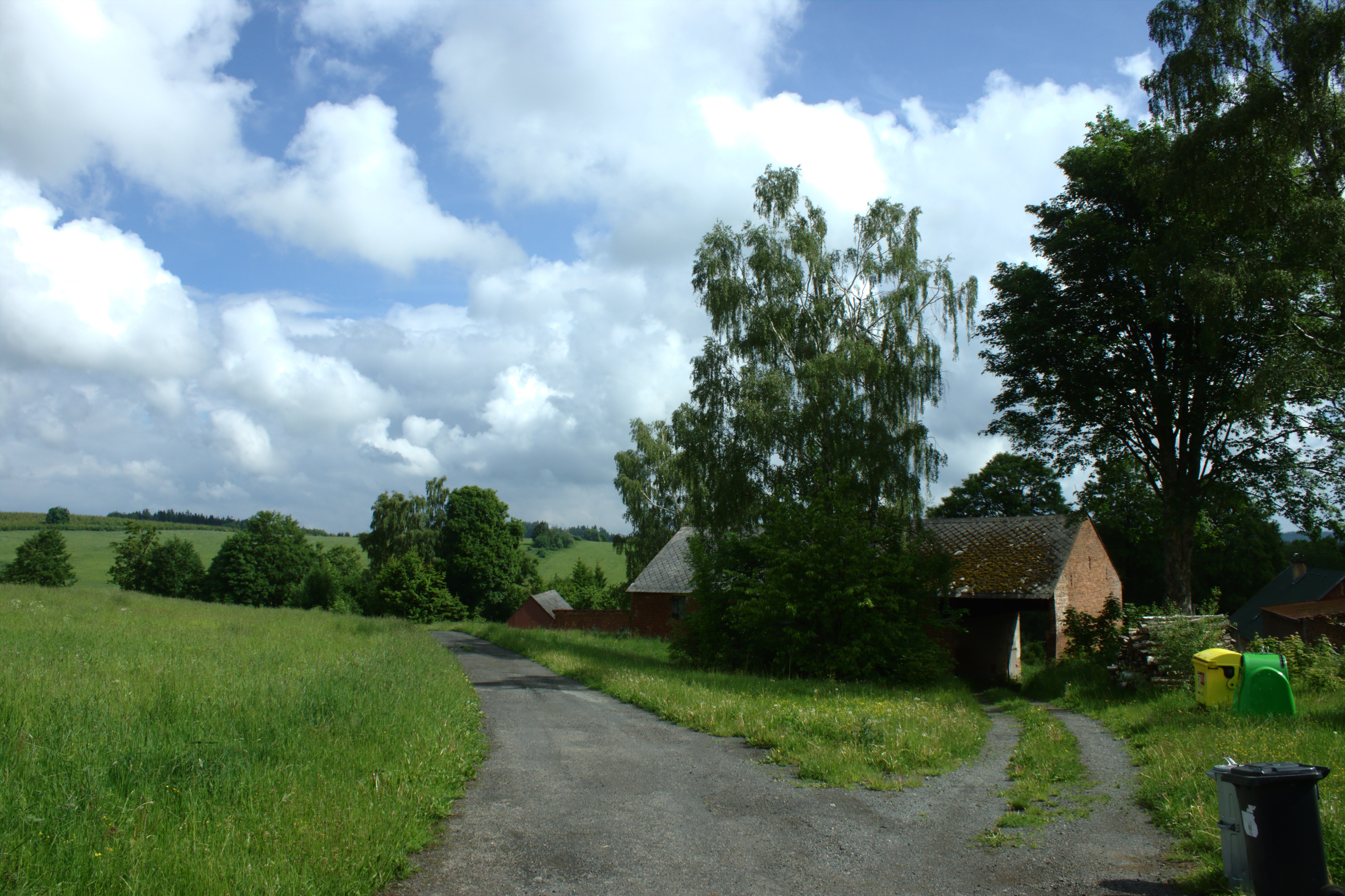 A crossing at the southern limit of the village of Bohuslav, Karlovy Vary Region, CZ